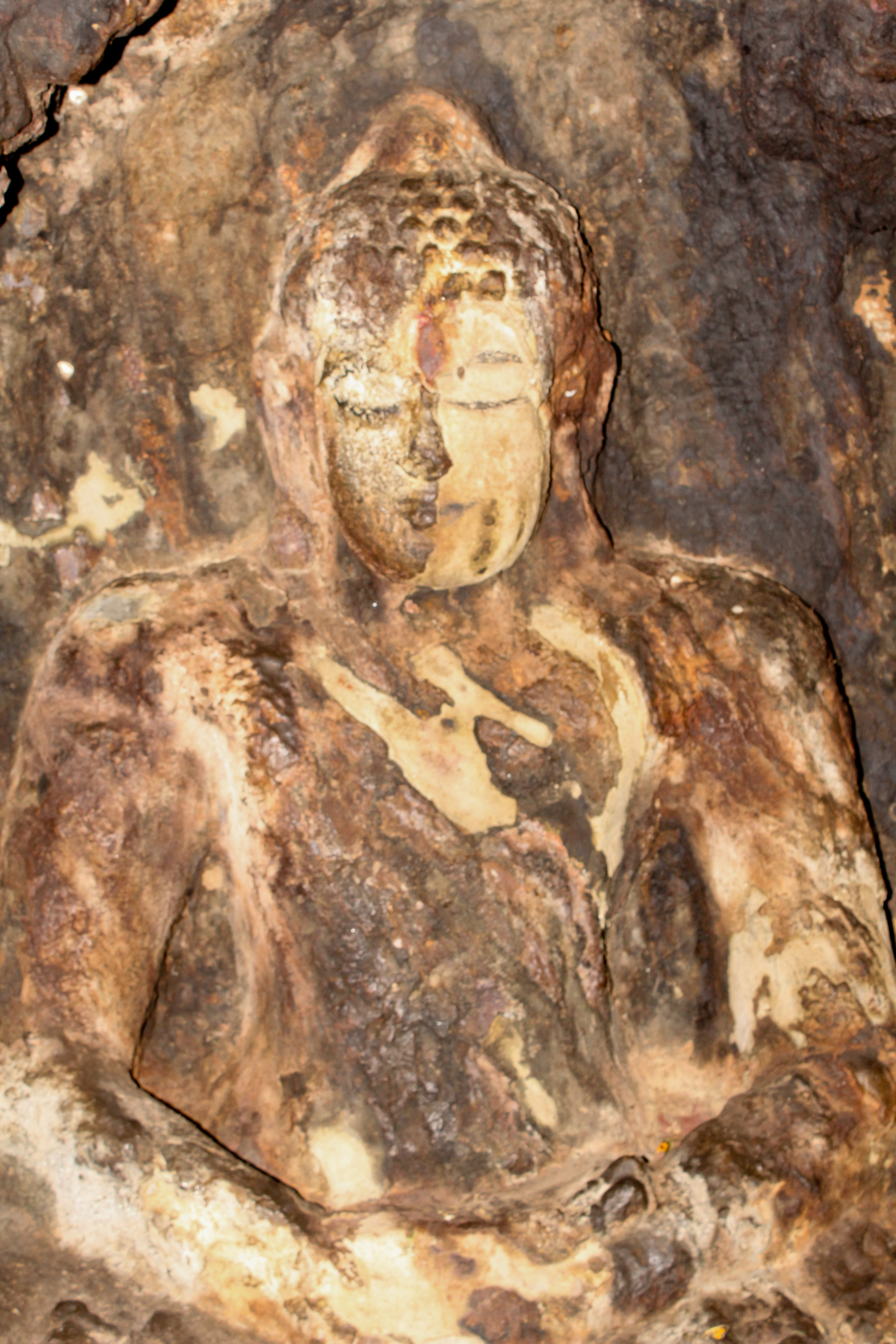 Buddhist rock-cut stupas, Dagabas and caves and the ruins of a structural Chaitya with its outbuilding and other Ancient remains on twoadjoining hills known as Bojjanna Konda.